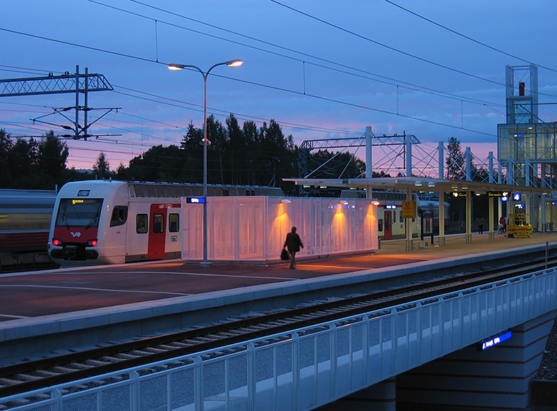 Koivukylä railway station in Havukoski district, Koivukylä major district of Vantaa, Finland.